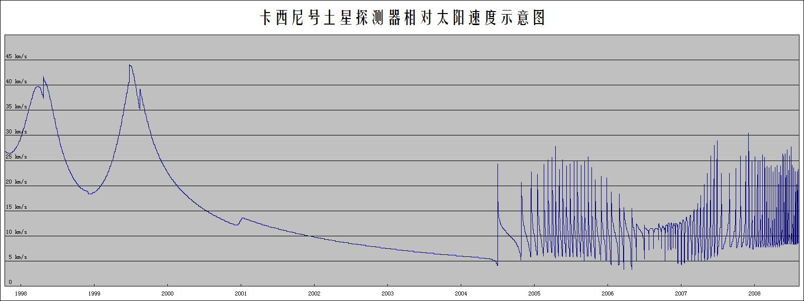 Image:Cassini's speed related to the Sun.png